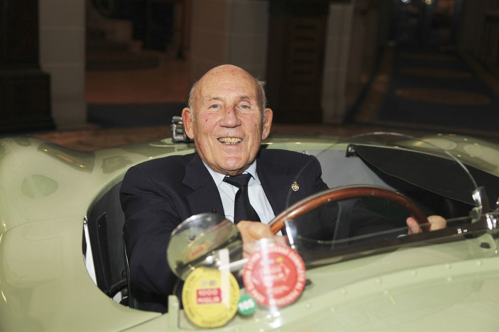 Jaguar Heritage Racing Press Conference, Sir Stirling Moss with C-type XKC 005